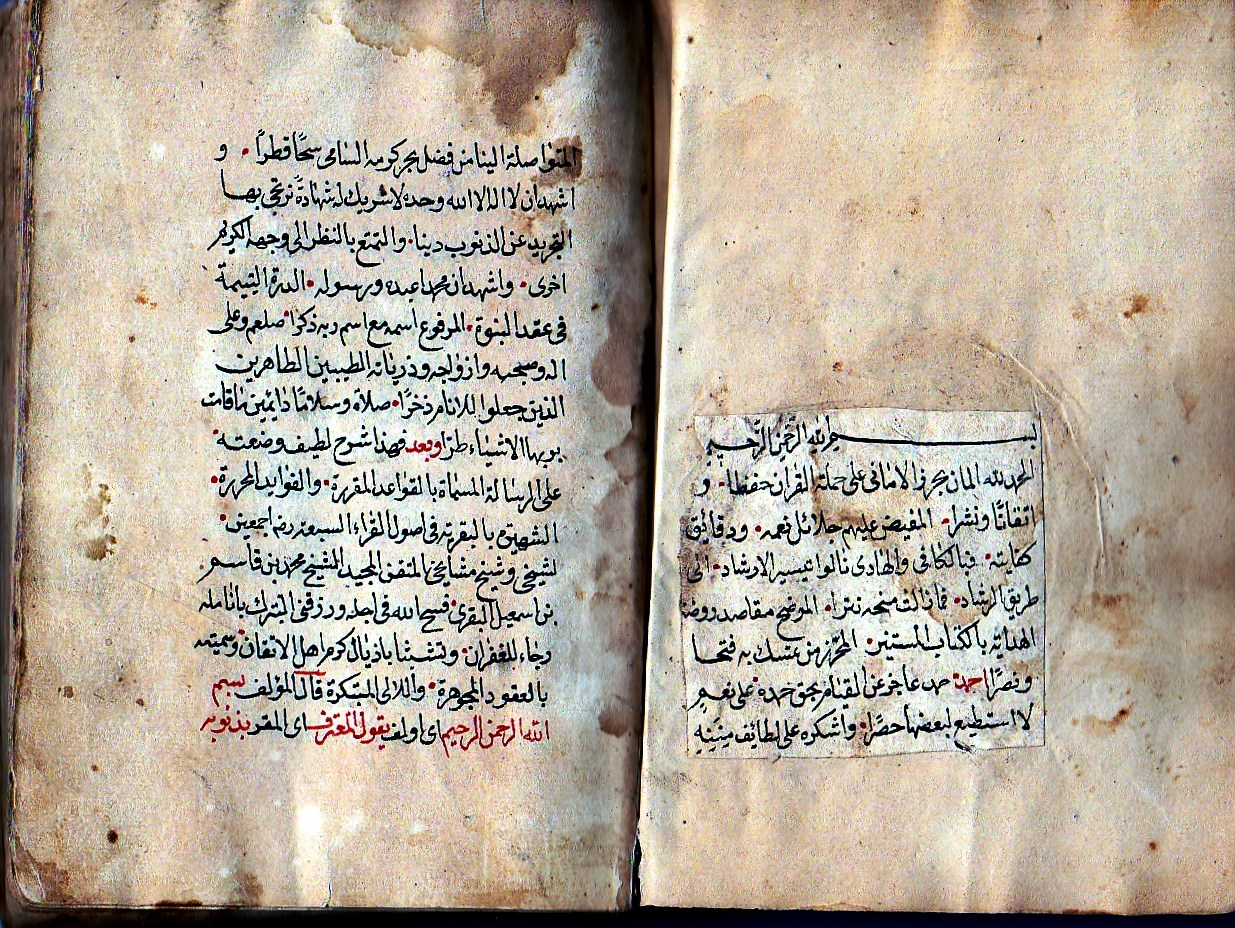 This book was written by Sheikh Mohammed bin Qasim bin Ismail al-Bagri(1609 - 1699) .and his student completed this work at the murjan Madrasah in Baghdad in 1705